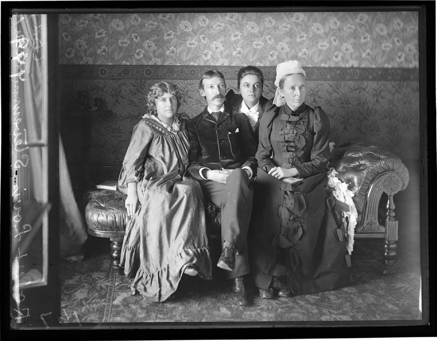 Robert Louis Stevenson and family in Sydney, 1893